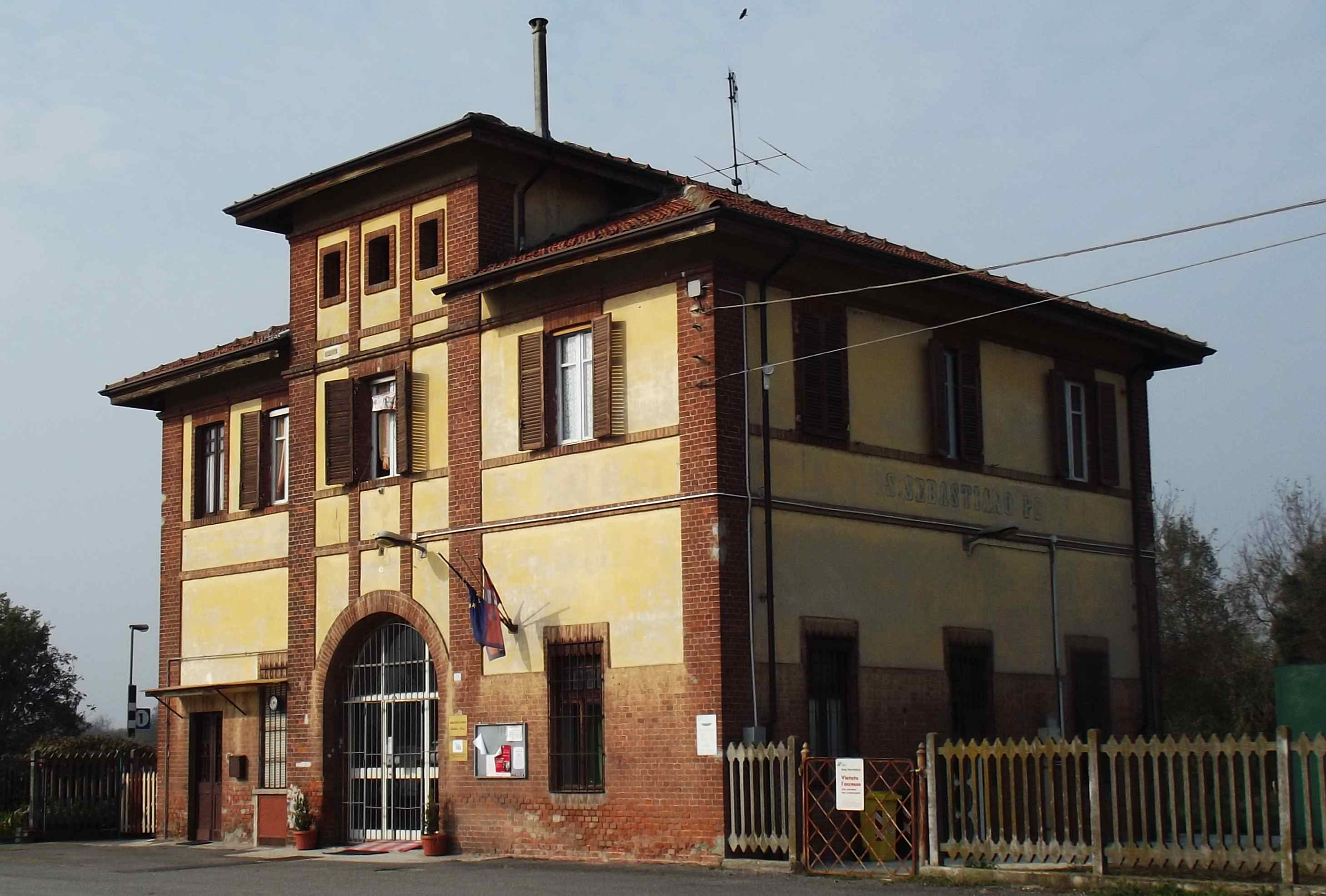 San Sebastiano da Po (TO, Italy): railway station